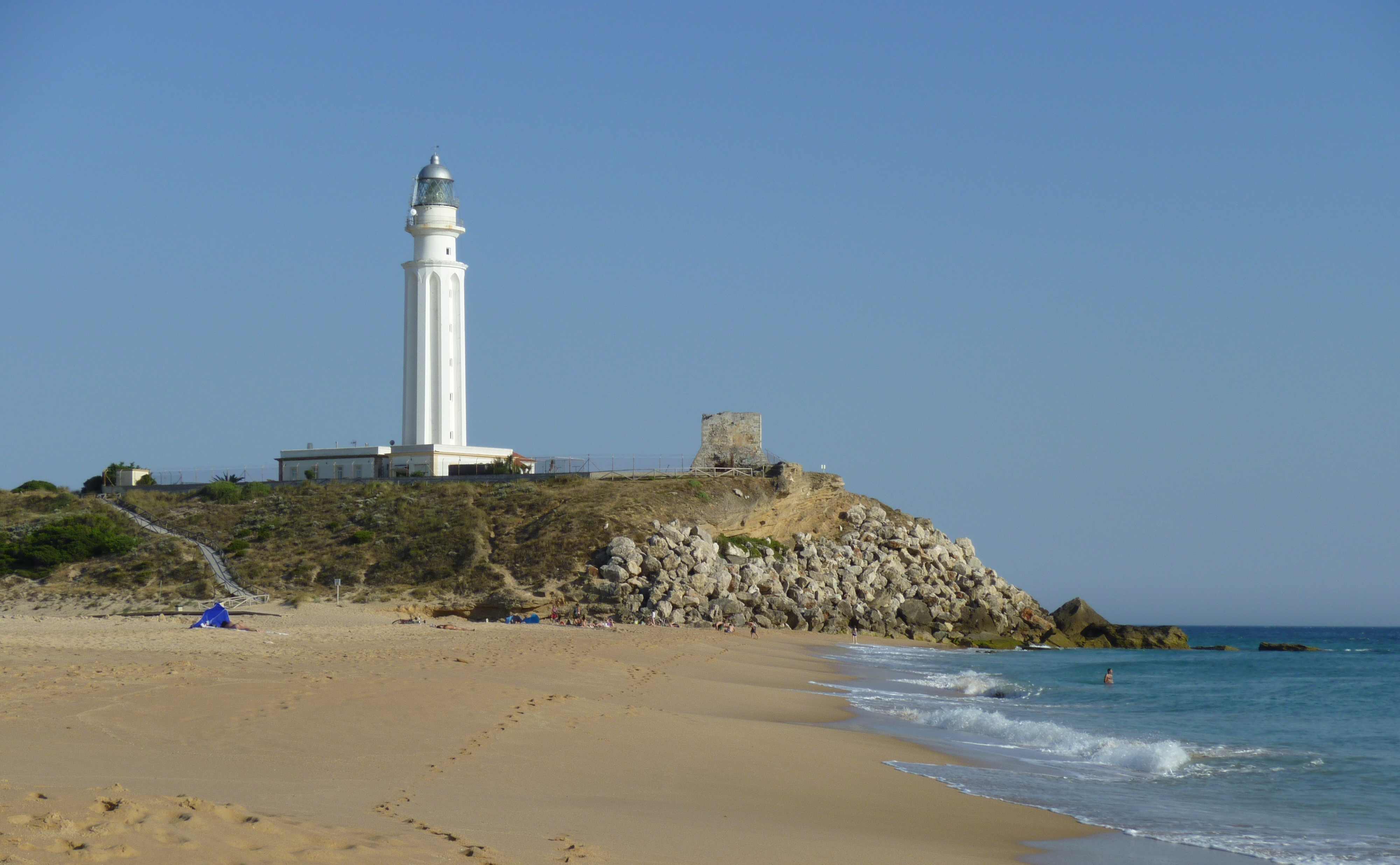 The lighthouse and the arab watchtower on Cape Trafalgar